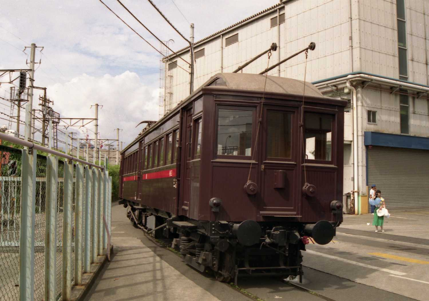 JGR Nade6141 EC. This photo was taken at JRE Oi-factory.